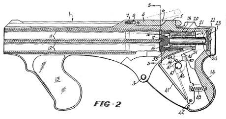 This is a clip taken from US Patent 3,260,009, of a Hillberg Insurgency Weapon.